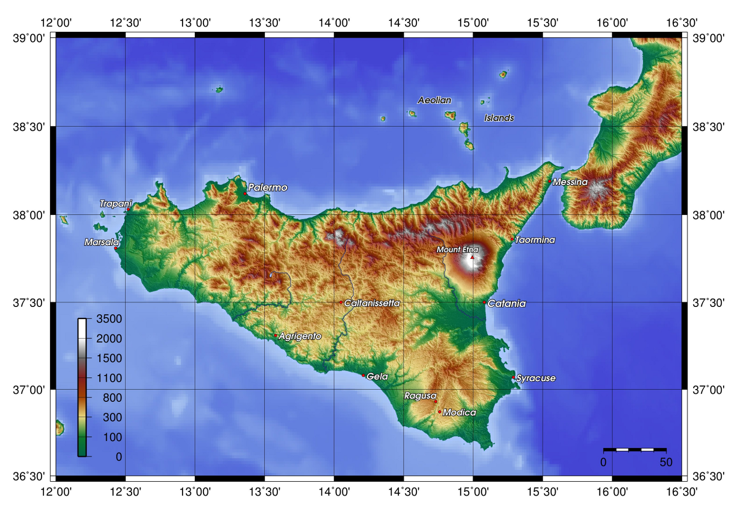 Topography of Sicily, created with GMT 4.1.3